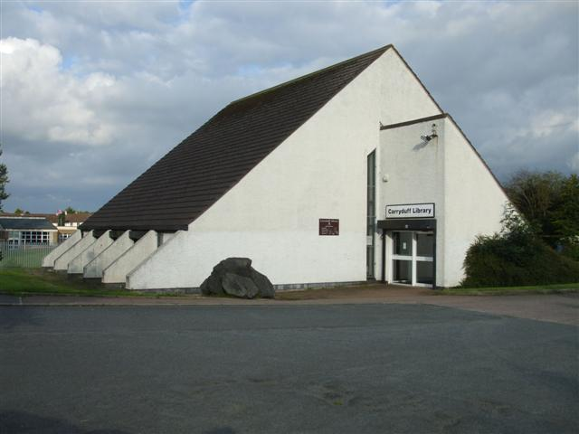 Carryduff Library Looking east